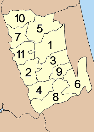 Map of Phatthalung province, Thailand, with the district (Amphoe) numbered. Mueang Phatthalung (อำเภอเมืองพัทลุง) Kong Ra (อำเภอกงหรา) Khao Chaison (อำเภอเขาชัยสน) Tamot (อำเภอตะโหมด) Khuan Khanun (อำเภอควนขนุน) Pak Phayun (อำเภอปากพะยูน) Si Banphot (อำเภอศรีบรรพต) Pa Bon (อำเภอป่าบอน) Bang Kaeo (อำเภอบางแก้ว) Pa Phayom (อำเภอป่าพะยอม) Srinagarindra (กิ่งอำเภอศรีนครินทร์)